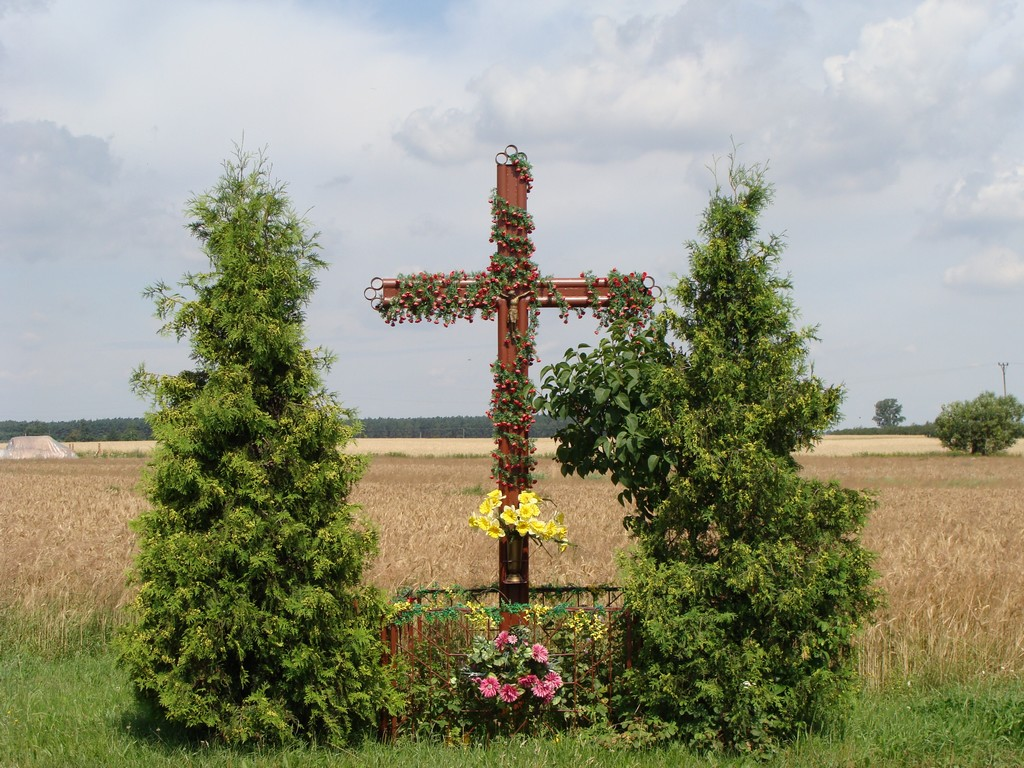 Grodzewo, roadside shrine.